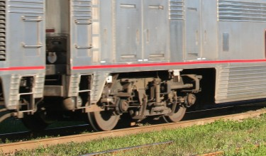 Superliner II Diner Car, seen in January 2006, just north of Sanford, FL.